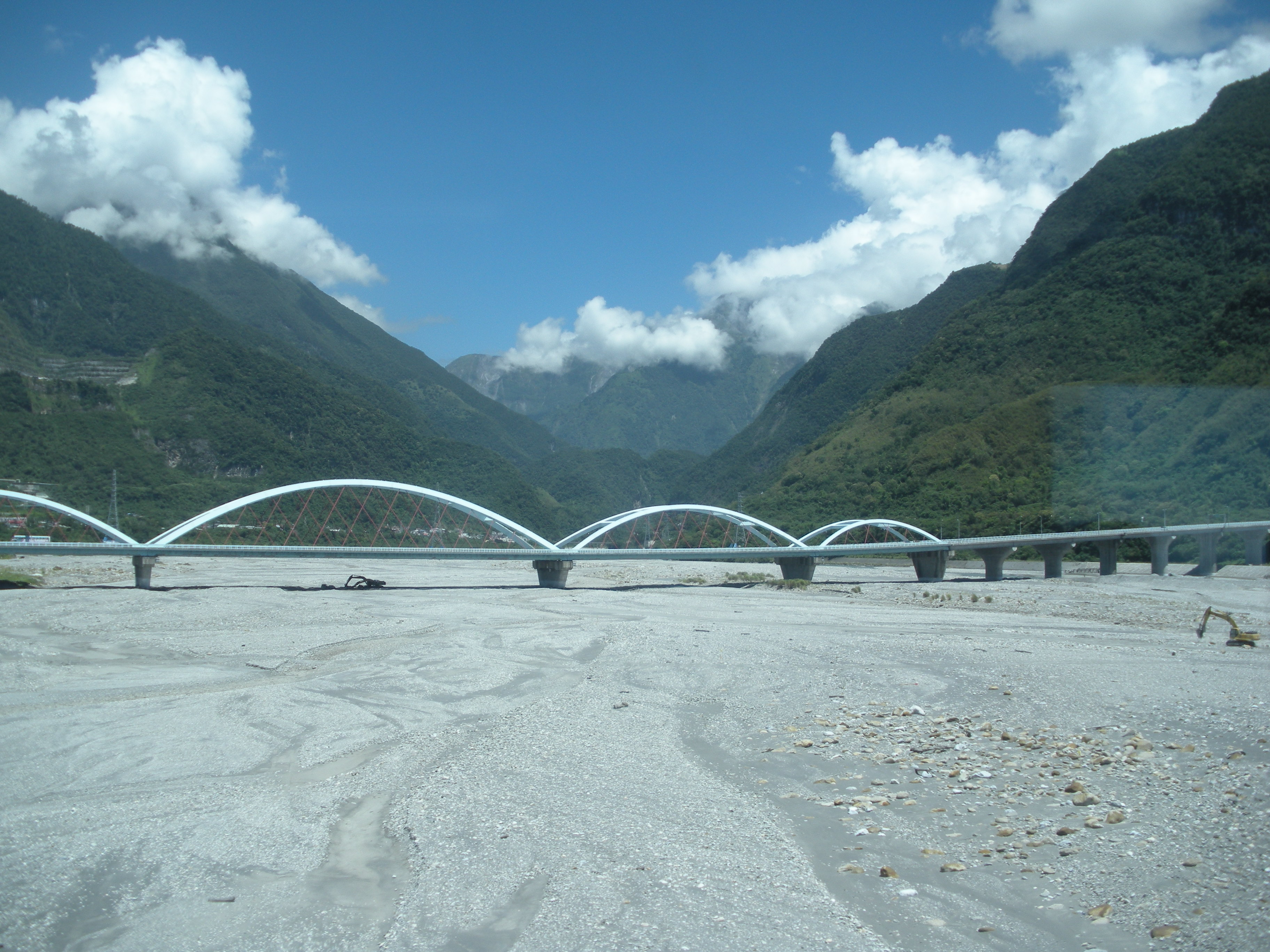 riu river